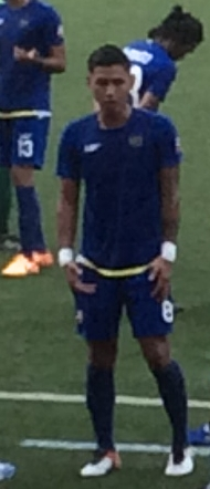 Dennis Villanueva following the end of the 0-0 football friendly between his club and Perth Glory F.C. of Australia